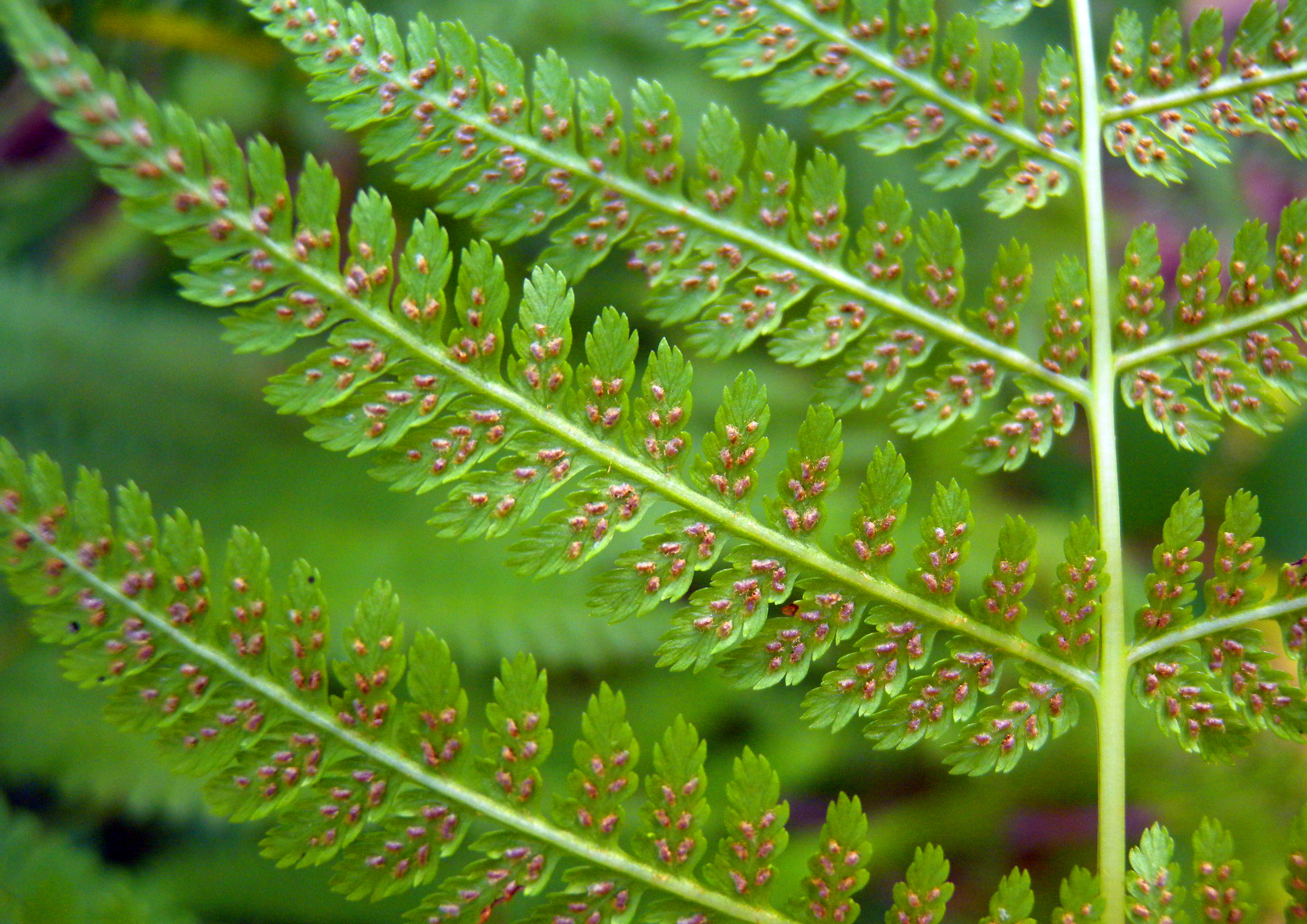 Sori of Athyrium filix-femina (Woodsiaceae); Tannwald near Ligerz, Canton of Bern, Switzerland